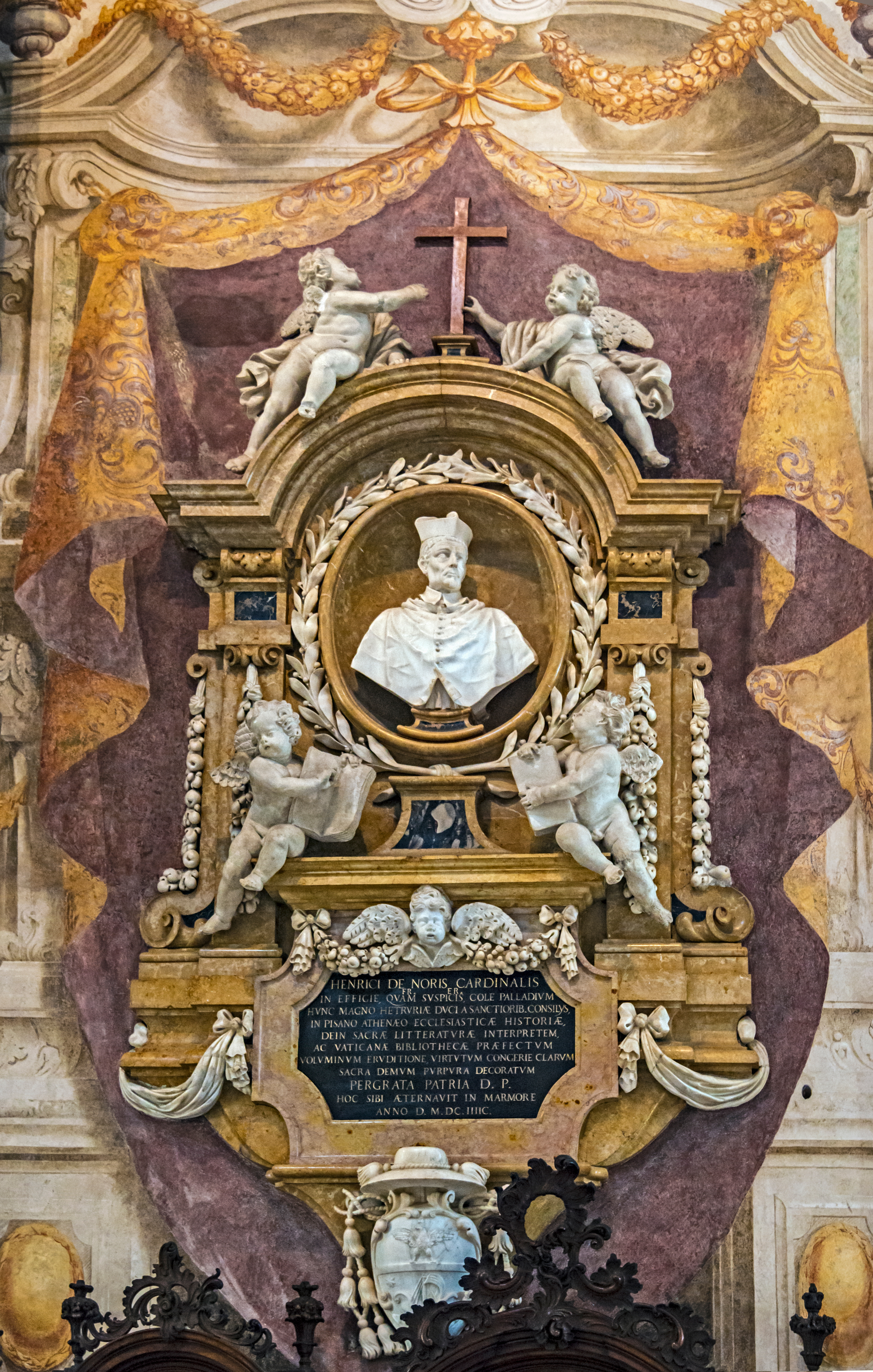 Cathedrale Santa Maria Matricolare. Monument to Enrico Noris